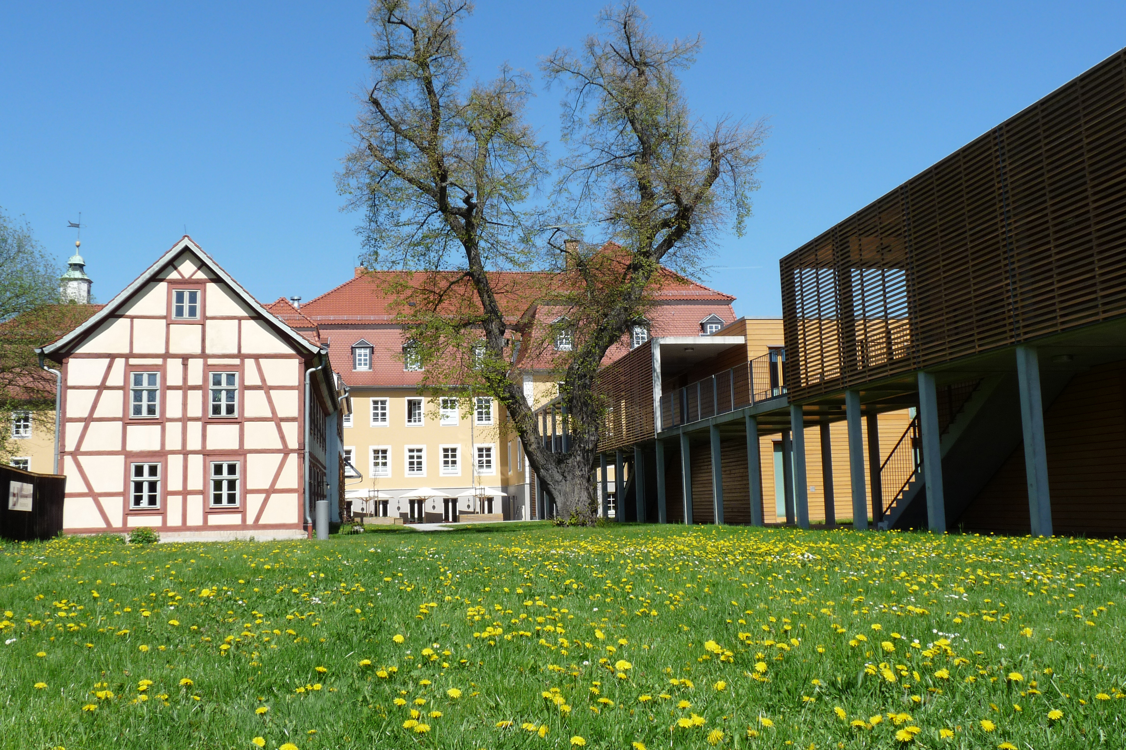 Die Evangelische Akademie Thüringen, Blick vom Garten